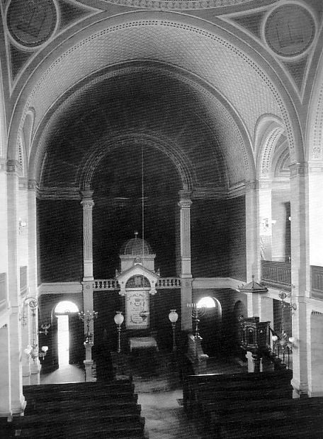 Inside the synagogue of Bruchsal (Germany), destroyed during Kristallnacht (1938)